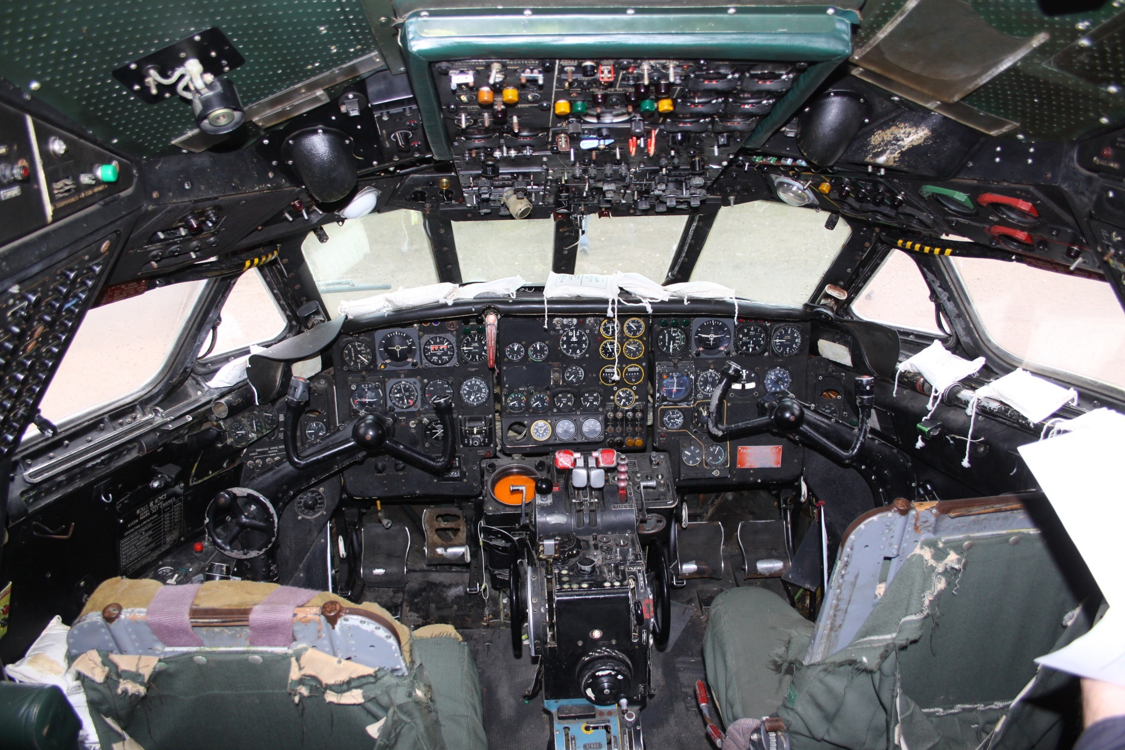 At Baarlo